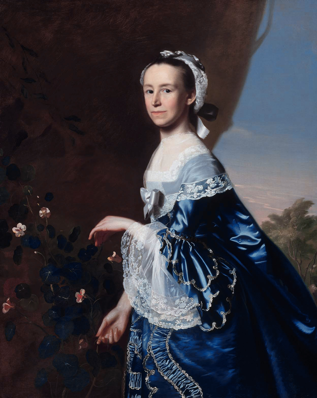 Mrs. James Warren (Mercy Otis) oil on canvas 126.05 x 100.33 cm circa 1763